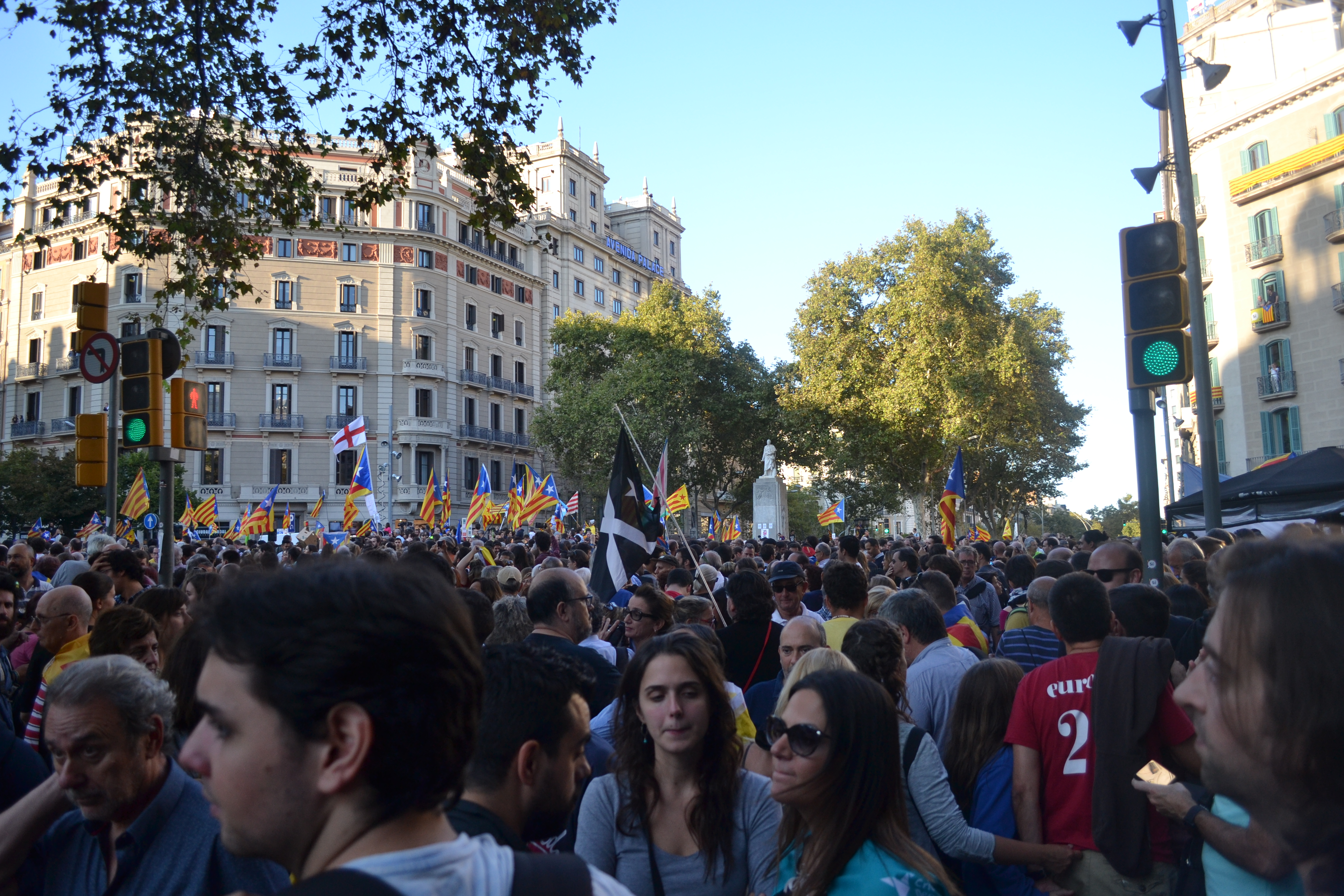 Protests of the 20th September, in the Ramblas of Catalonia, Barcelona.